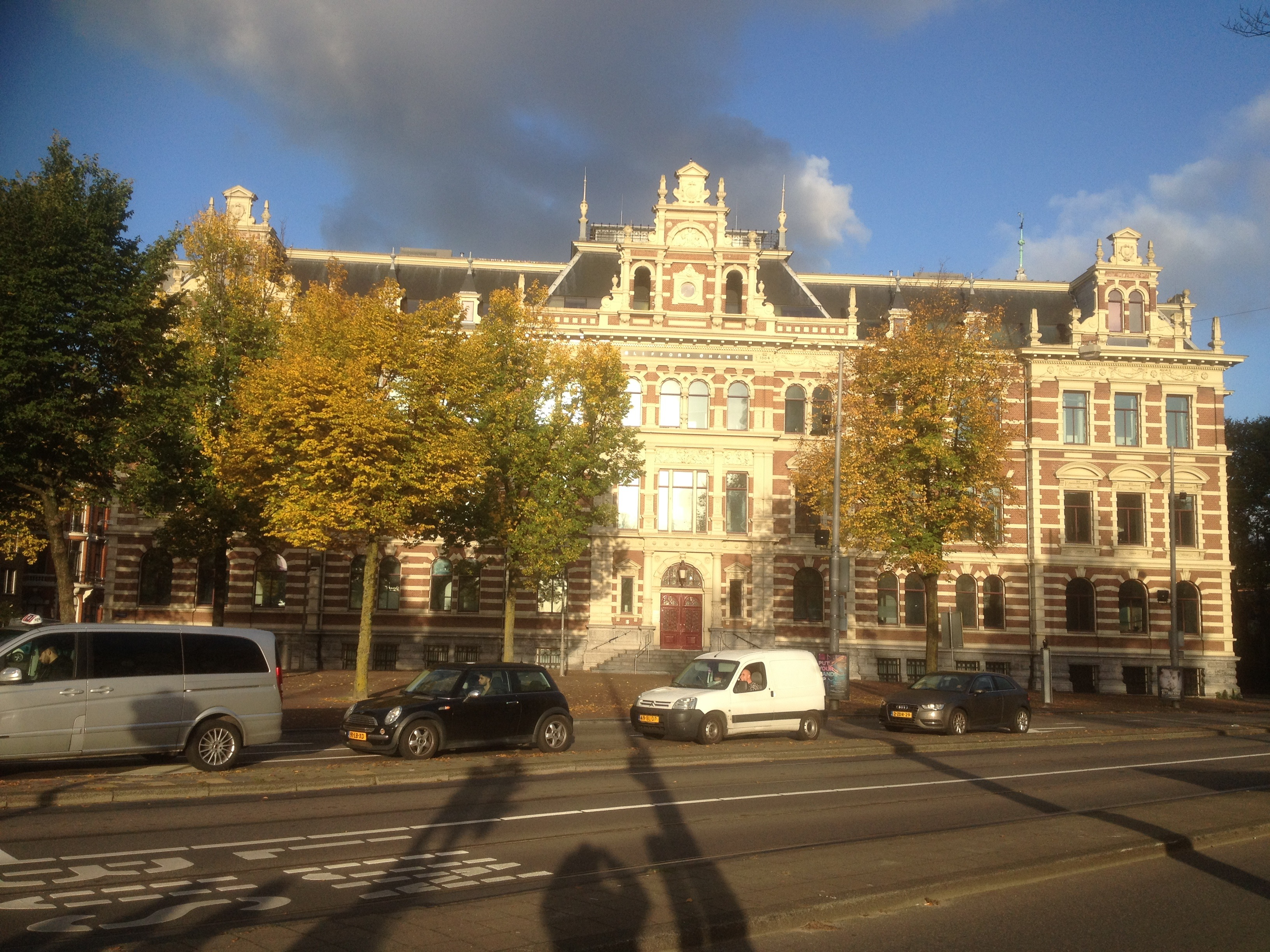 Building in Amsterdam, Netherlands with - among others - the consulate of Sao Tomé en Principe.